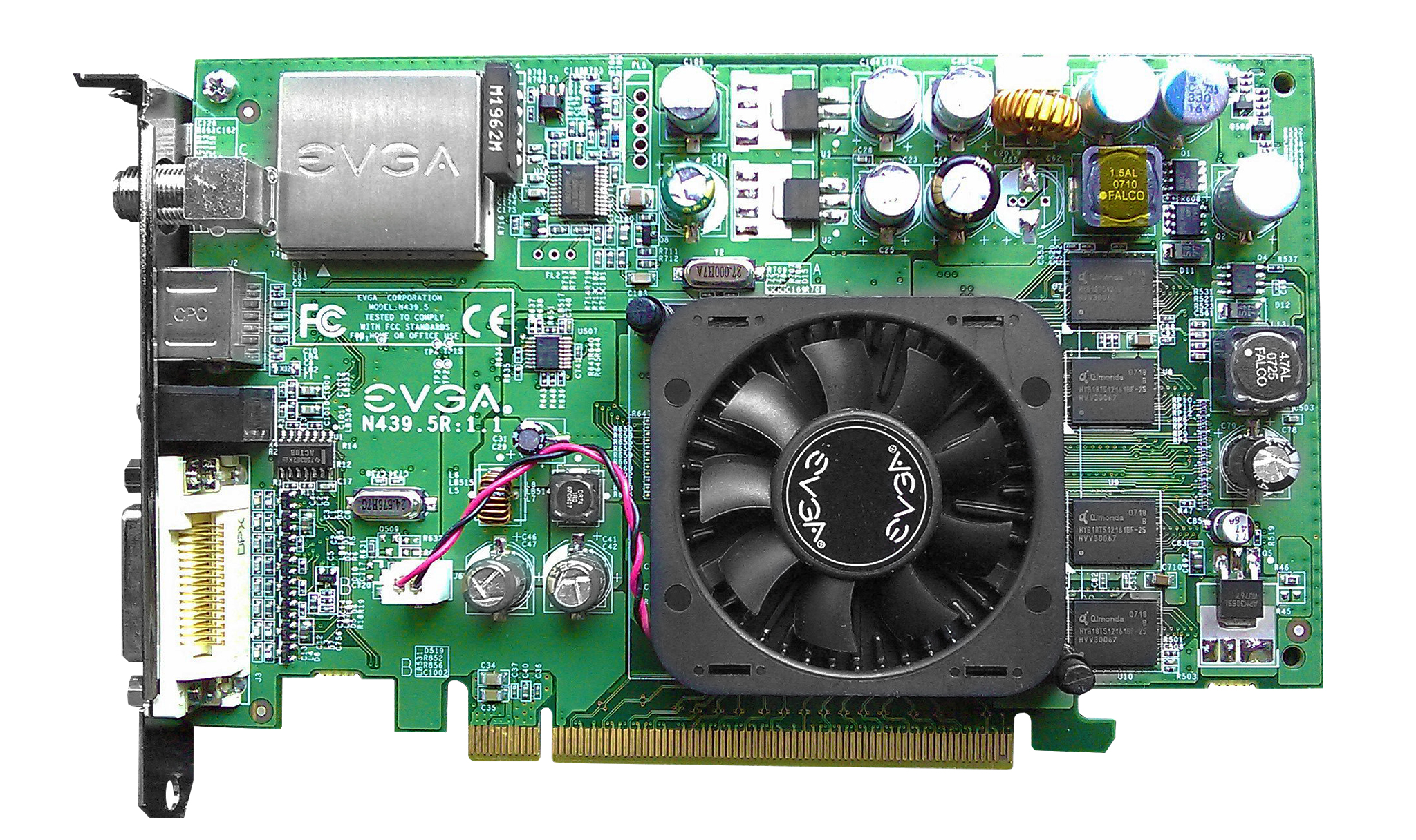 EVGA 256-P2-N439